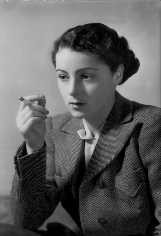 Mona Friedlander WW2 pilot and ice hockey player